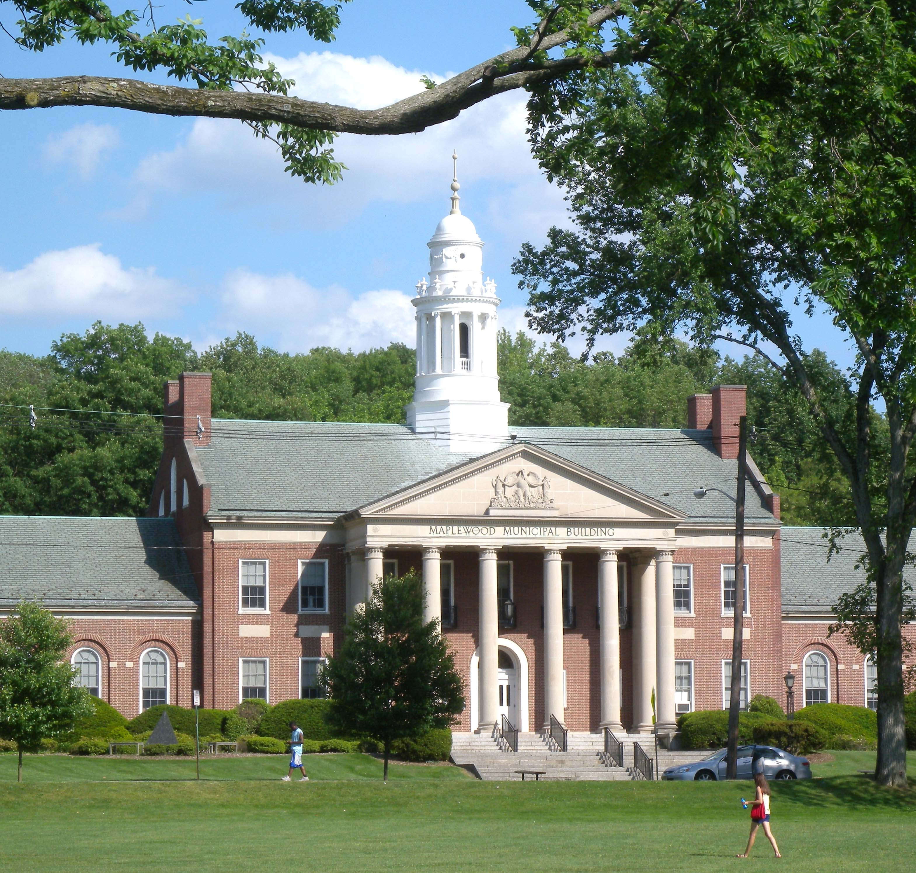 Looking southeast, full zoom, far across a lawn at Maplewood, New Jersey Municipal Building on a mostly sunny early afternoon.